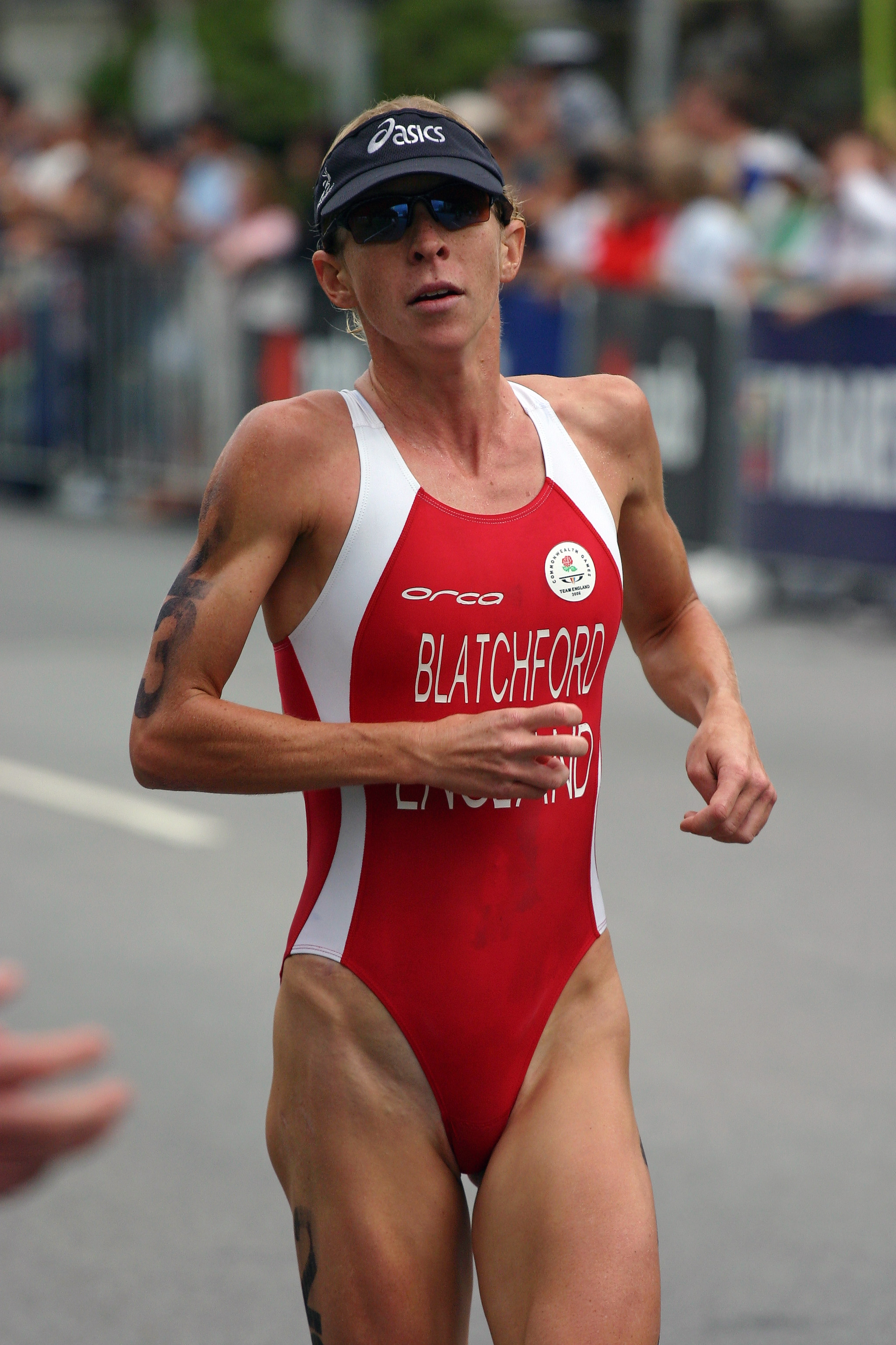 Commonwealth Games triathlon held on Beach Road, St Kilda.